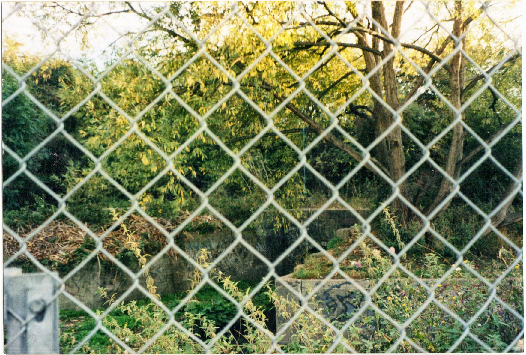 An image of the abandoned grey concrete stairwell to the London side platform at the old Ruislip Gardens station. It is in the bushes, behinde the tree and above the former station's dranage cuvert drain (the gray concrete structure). Until recently the entrance to assumidly the same passenger stairwell was visible on the London-bound side of the Chiltern tracks.